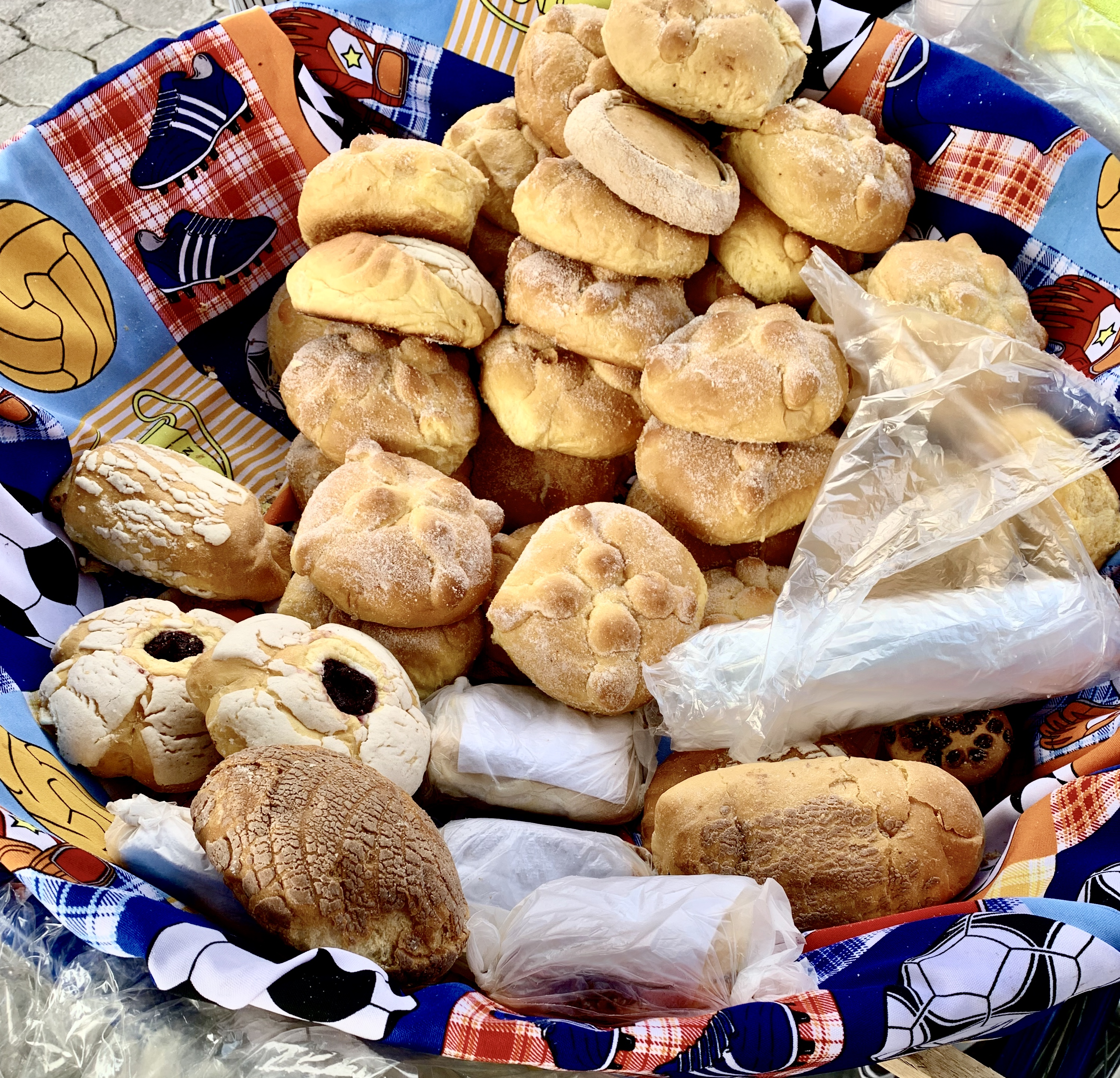 It is not a bread for everyday consumption, since it is intimately associated with the celebration of the Day of the Dead, during the month of November.